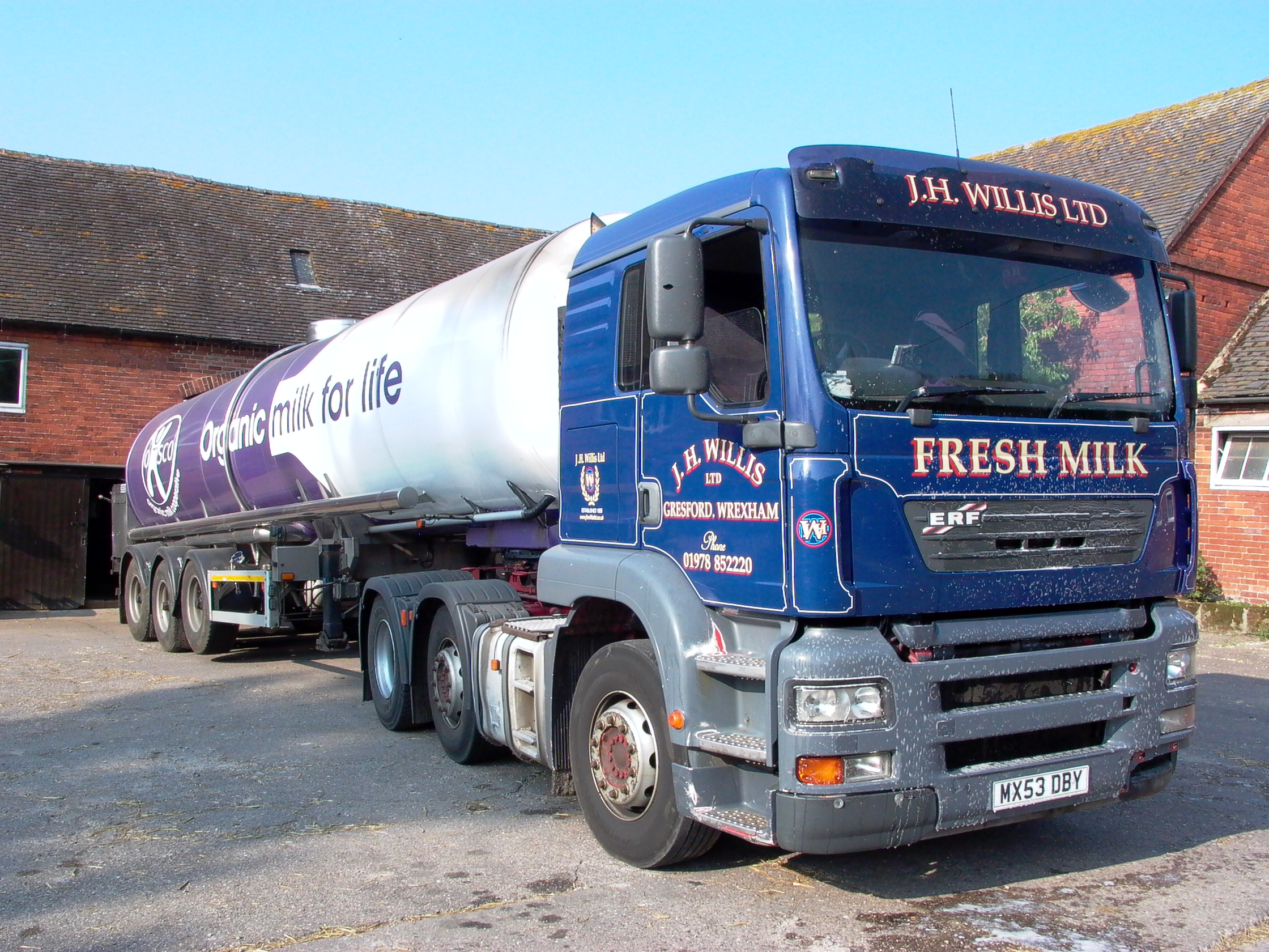 ERF ECT milk truck. This is a 2003 ECT 11.42, 10824cc diesel.